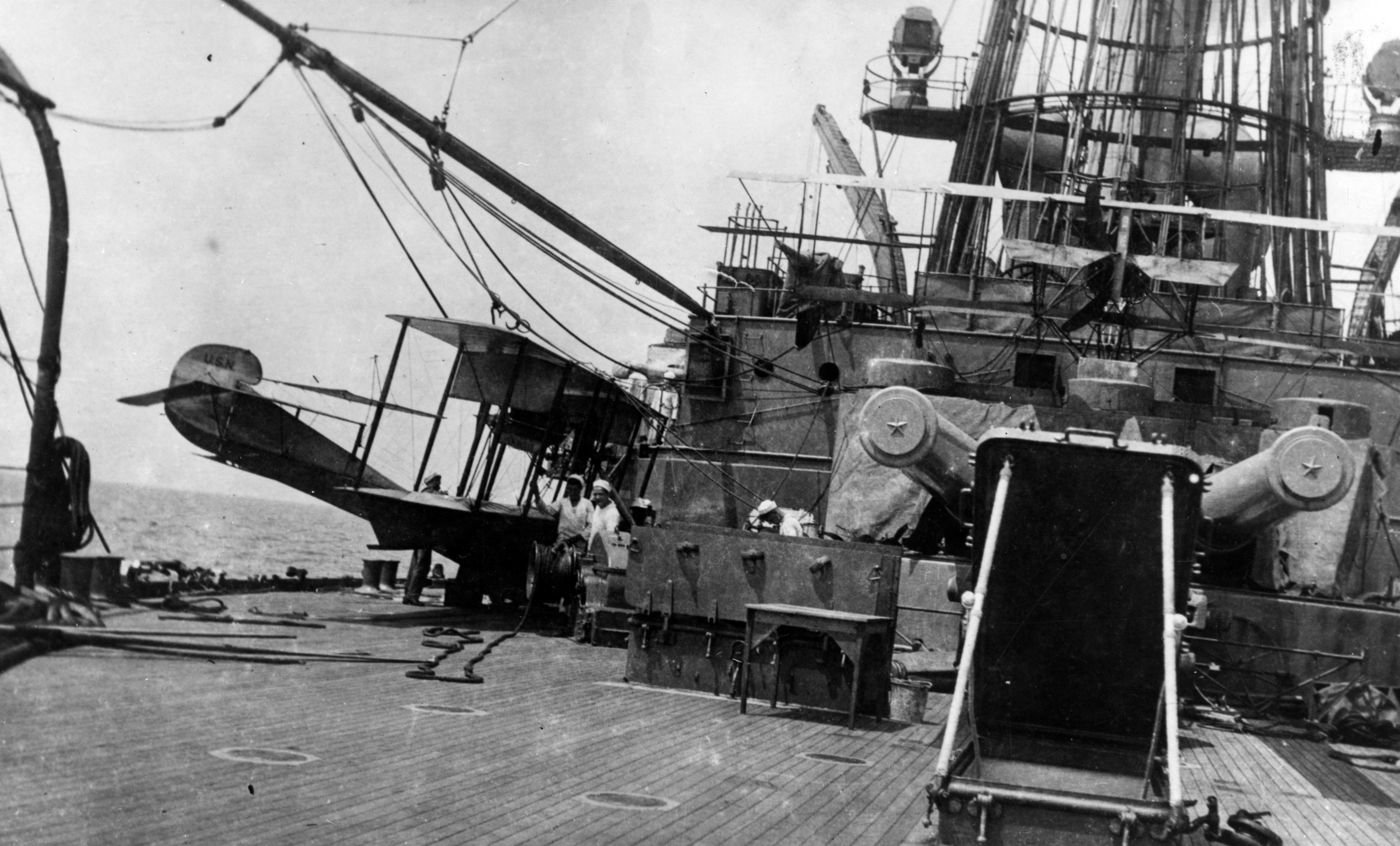 The United States battleship USS Mississippi (BB-23), view on the ship's afterdeck, while she was carrying the Navy's first combat air group to Vera Cruz, Mexico, in April 1914. Planes visible include a Curtiss AB type flying boat (on deck at left), and a Curtiss AH type floatplane (atop the after 12/45 gun turret). Note boom rigged to the battleship's superstructure, at left, for hoisting the planes on and off the ship.